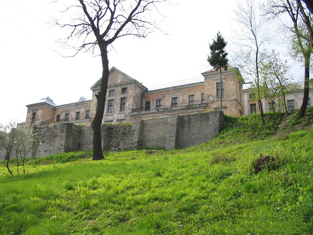 The Vyshnivets Castle in Vyshnivets, Ukraine.